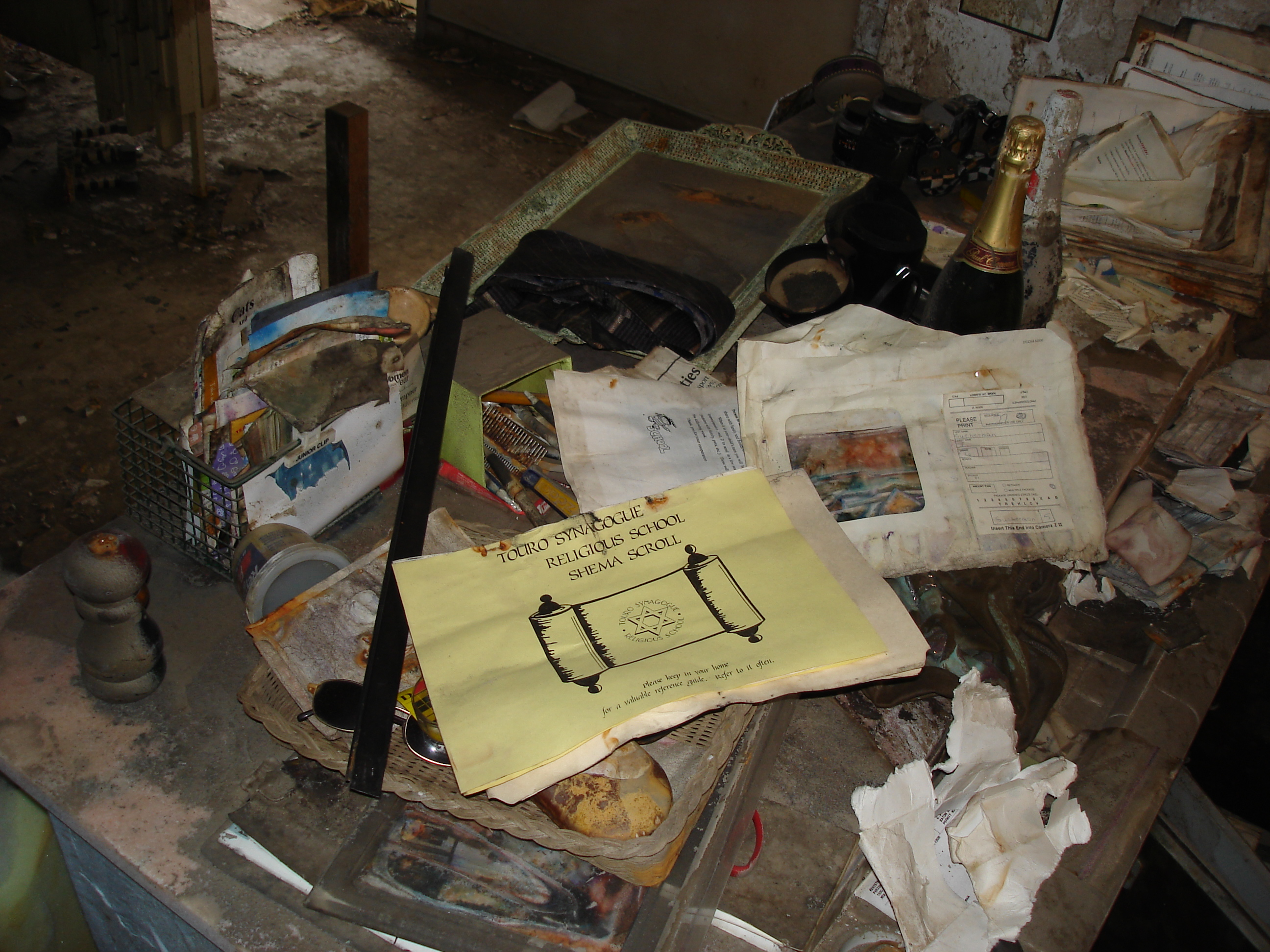 Photo of flood damaged possessions in interior of Jewish home in New Orleans destroyed in the Hurricane Katrina levee failure disaster. Rick Weil, May 2006